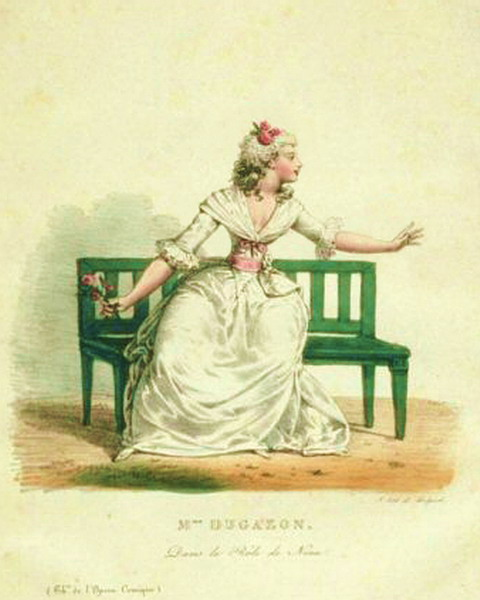 Madame Dugazon in the title role of Dalayrac's Nina, a role she created on 15 May 1786